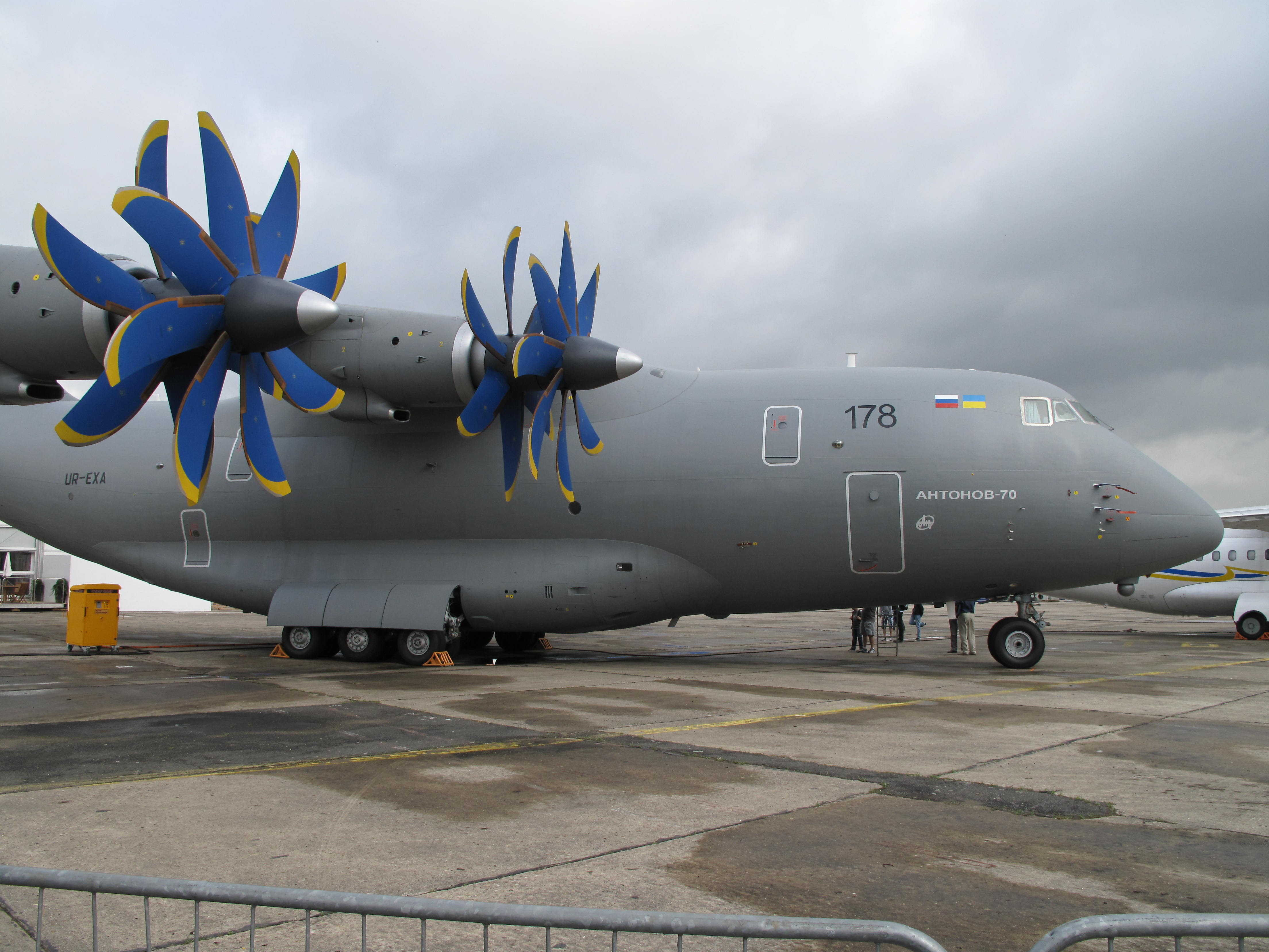 Ukrainian Antonov AN-70 at Paris Air Show 2013